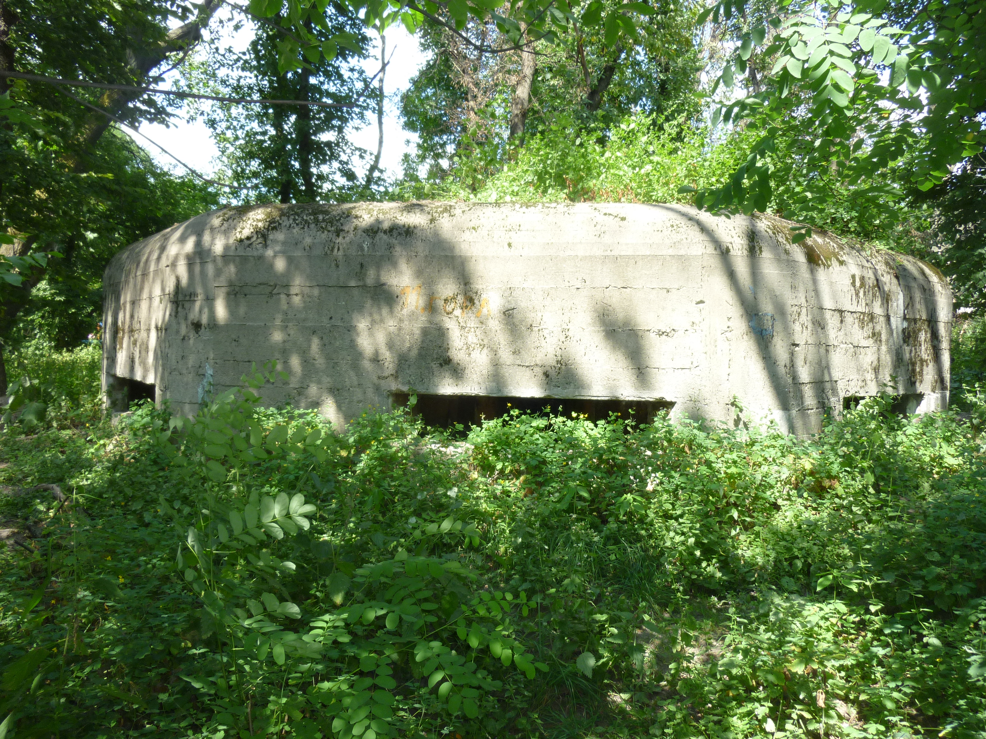 Pillbox № 481 (Kiev fortified area)